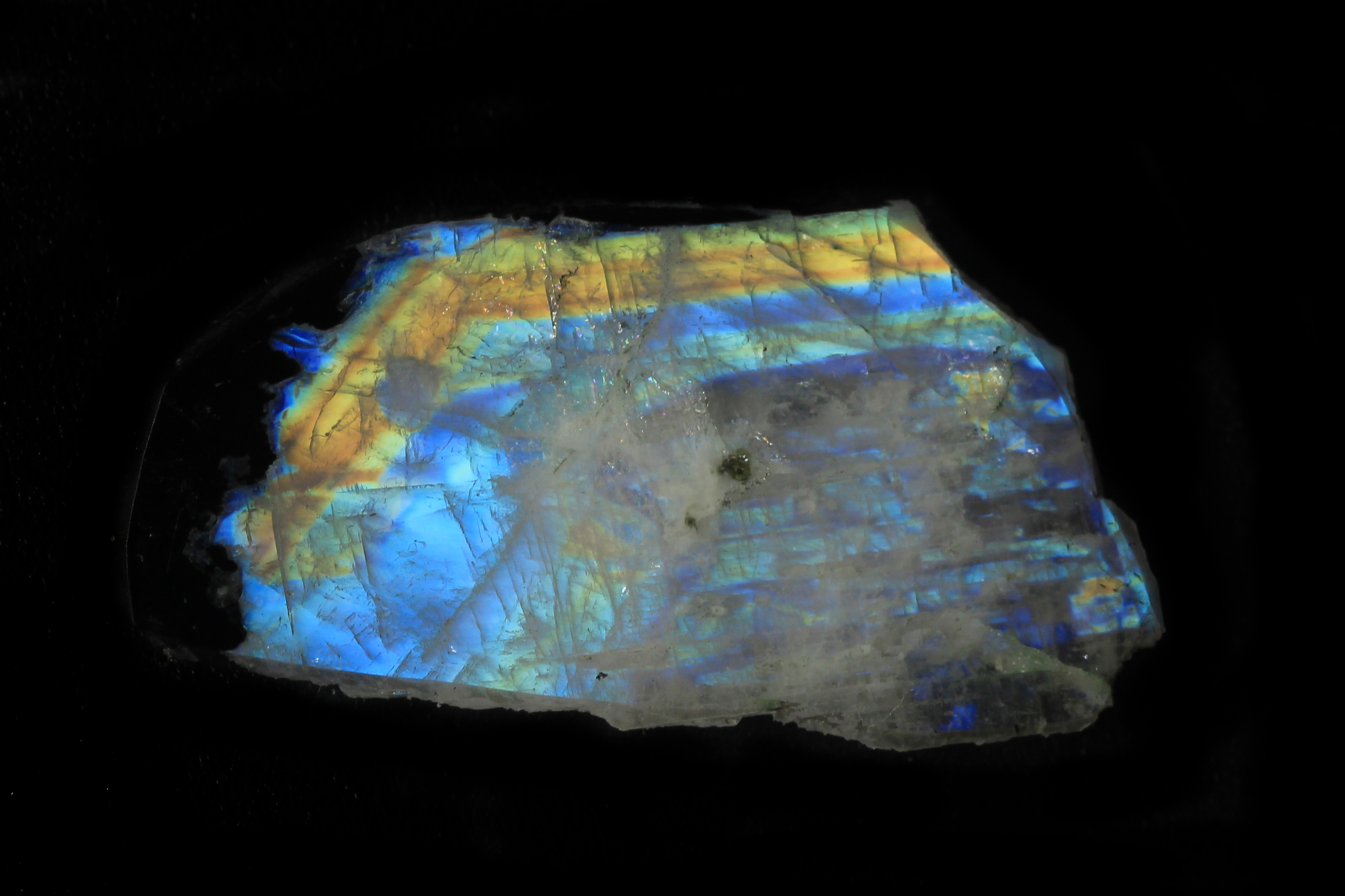 Labrador is a good example of pseudochromatic gem. This sample colored in light gray color, but we see different colors as a result of light interference in minerals microstructures.